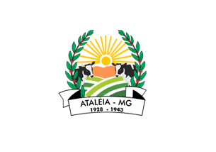 Flags of the city of Ataléia, Minas Gerais , Brazil.